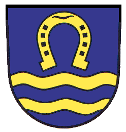 Coat of Arms of Lehrensteinsfeld